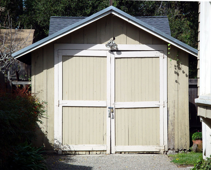 "HP"-Garage in Palo Alto